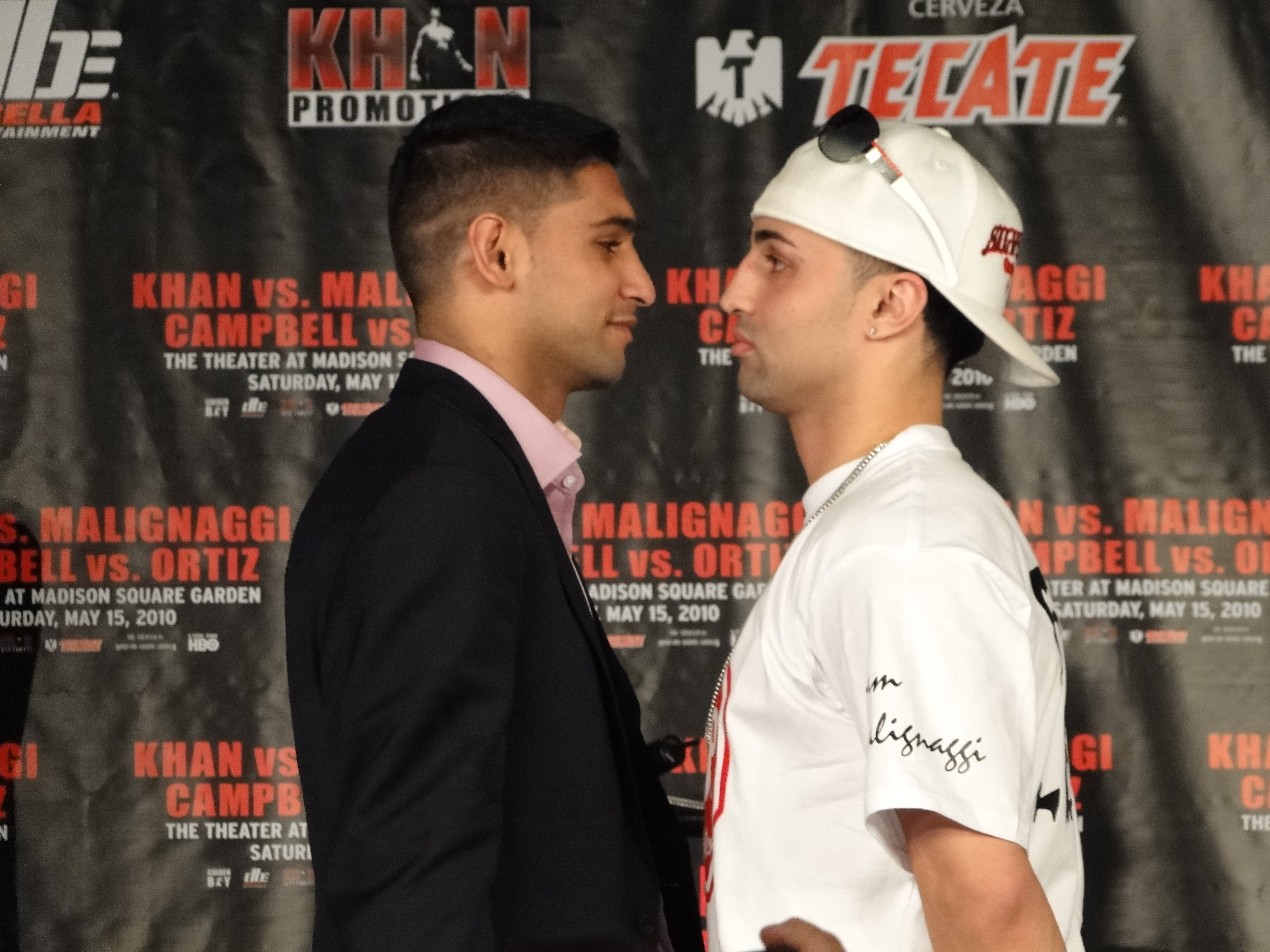 Amir Khan (left) and Paul Malignaggi on March 17, 2010. (Original text : Khan attempting not to laugh.)